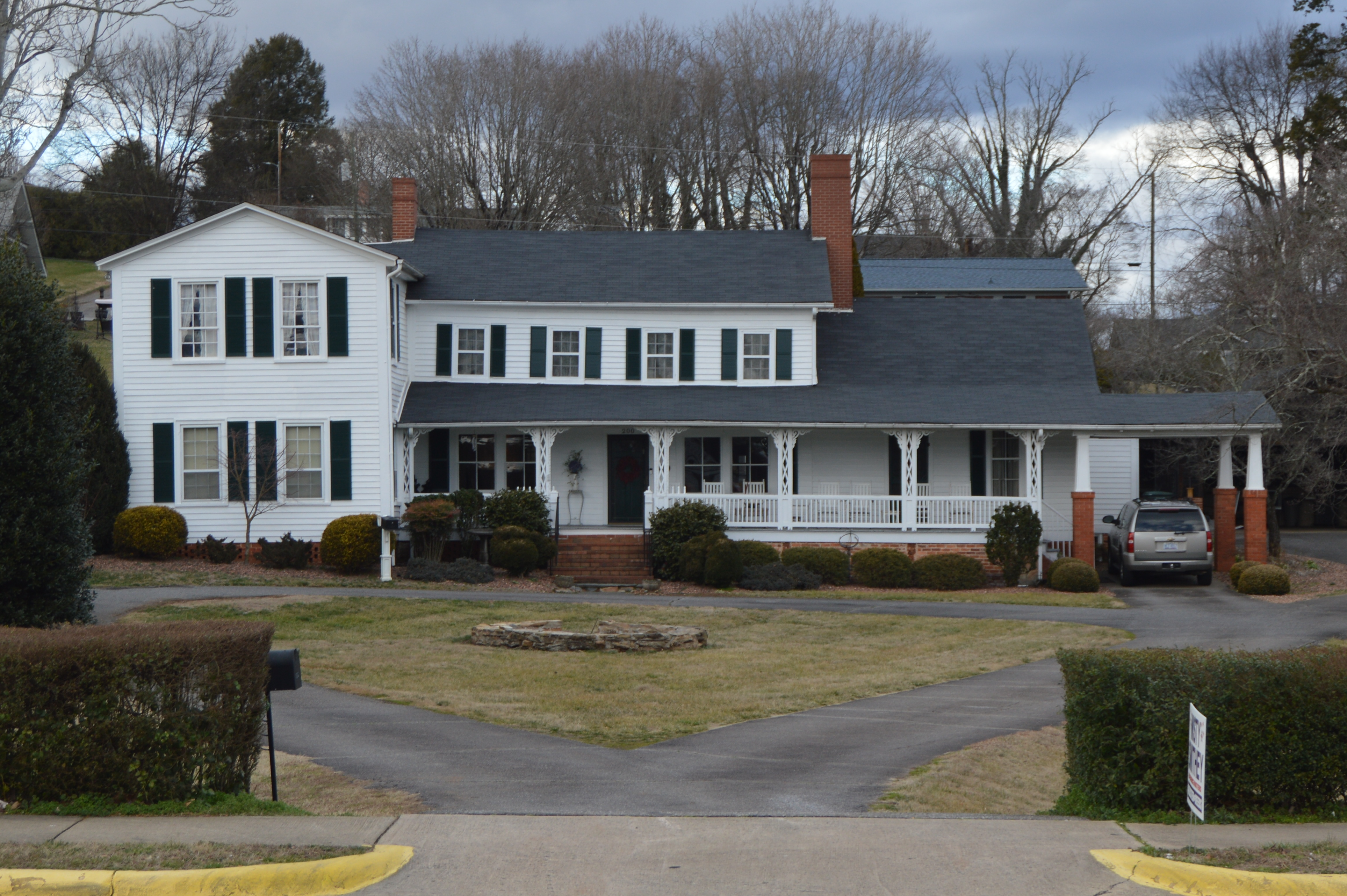 Front of the Brown-Cowles House, located at 200 E. Main Street (North Carolina Highways 18/268) in Wilkesboro, North Carolina, United States. Built in 1834 and later expanded, it is listed on the National Register of Historic Places, and it is part of a Register-listed historic district, the Downtown Wilkesboro Historic District.